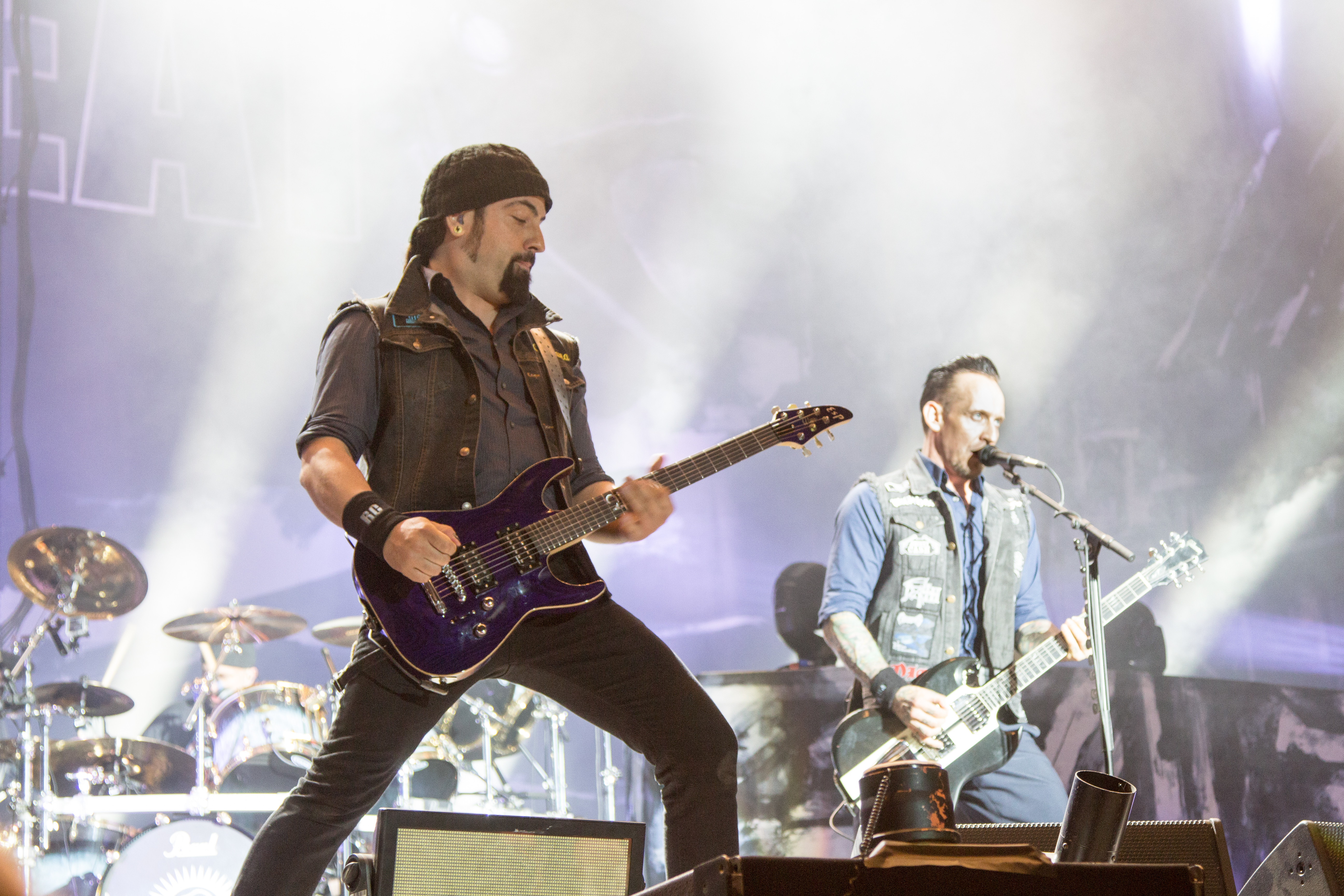 Michael Schøn Poulsen and Rob Caggiano from Volbeat at Nova Rock 2014